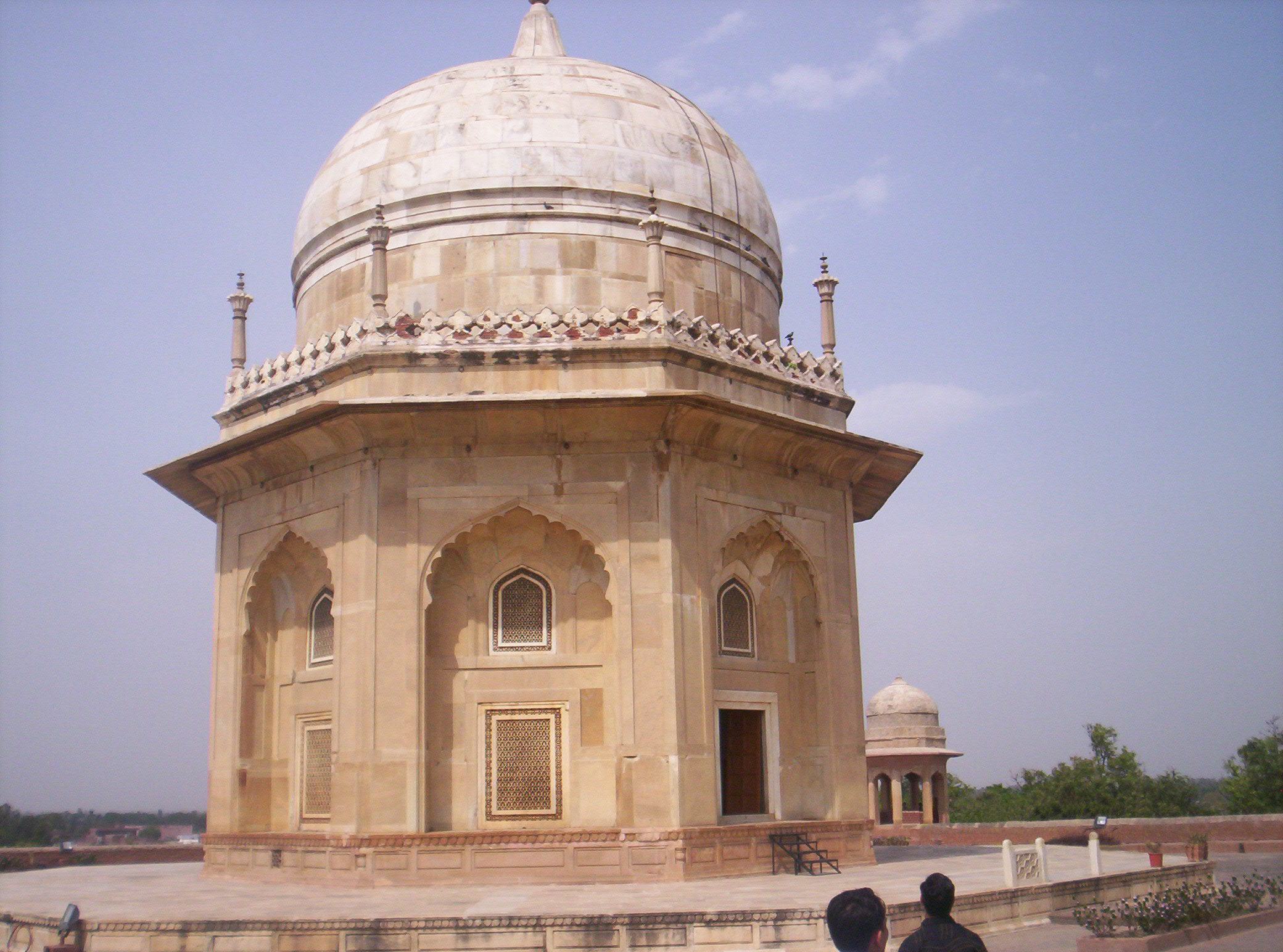 Tomb of Sheikh-Chilli, in Kurukshetra, Haryana, India.